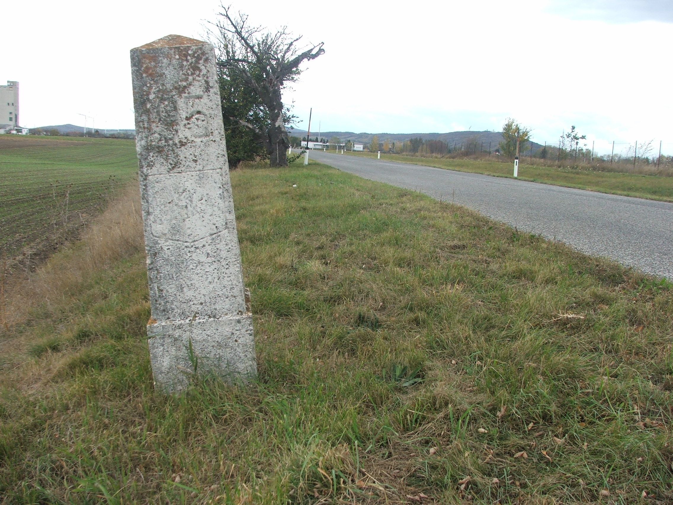 Old milestone on former Hungarian State Road Nr.1. between Jarovce (Slovakia) and Kittsee (Austria)before 1947. The milestone shows the distance from Budapest (Hungary) in kilometers. The surrounding area was ceded from Hungary to Czechoslovakia (today: Slovakia) in 1947 and the border post near the milestone was abandoned and closed for a long time.